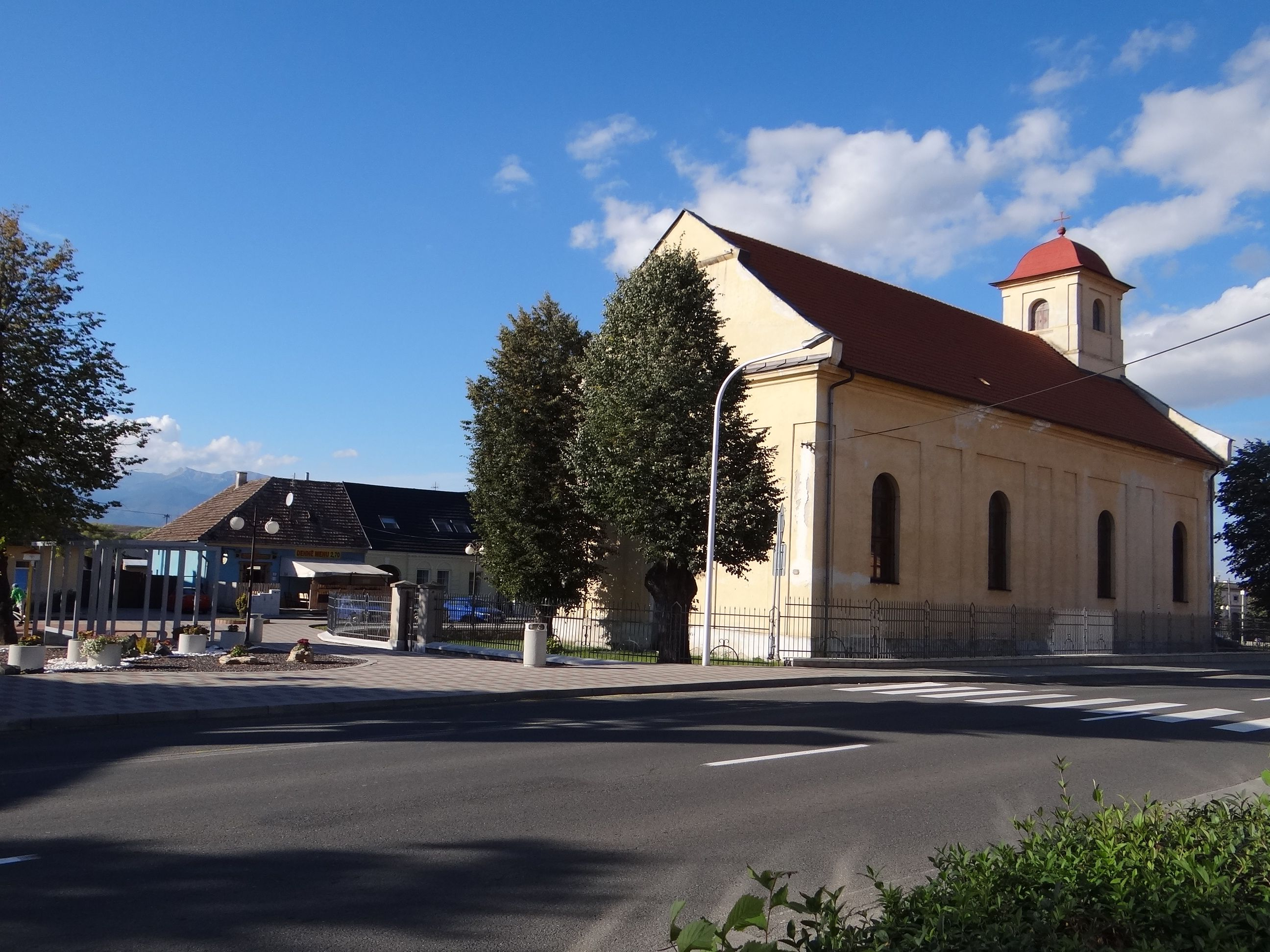 Huncovce